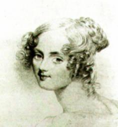 Portrait of Jane Digby